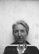 Elda Anderson Los Alamos wartime security badge.